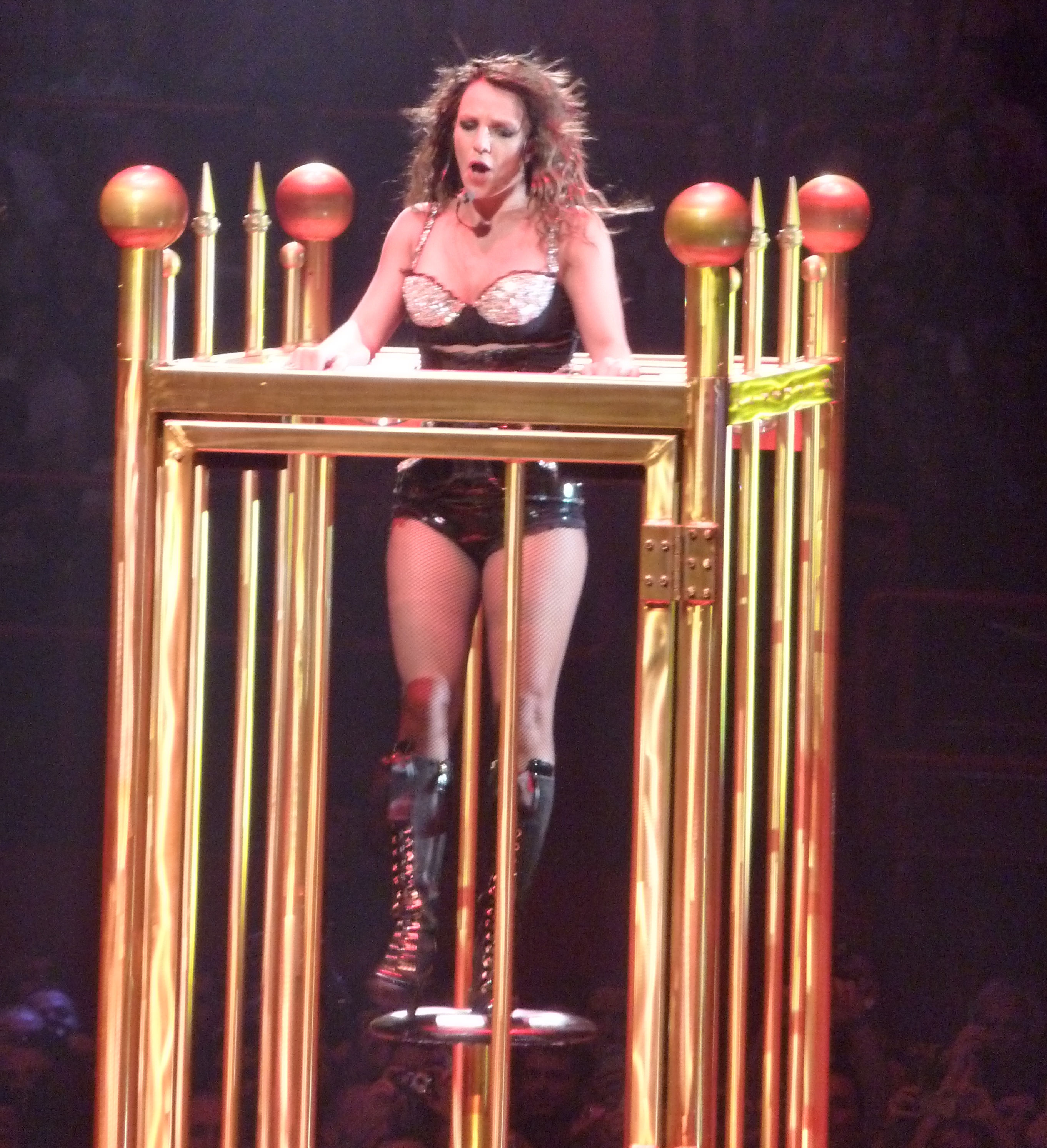 Britney Spears Performing in Paris